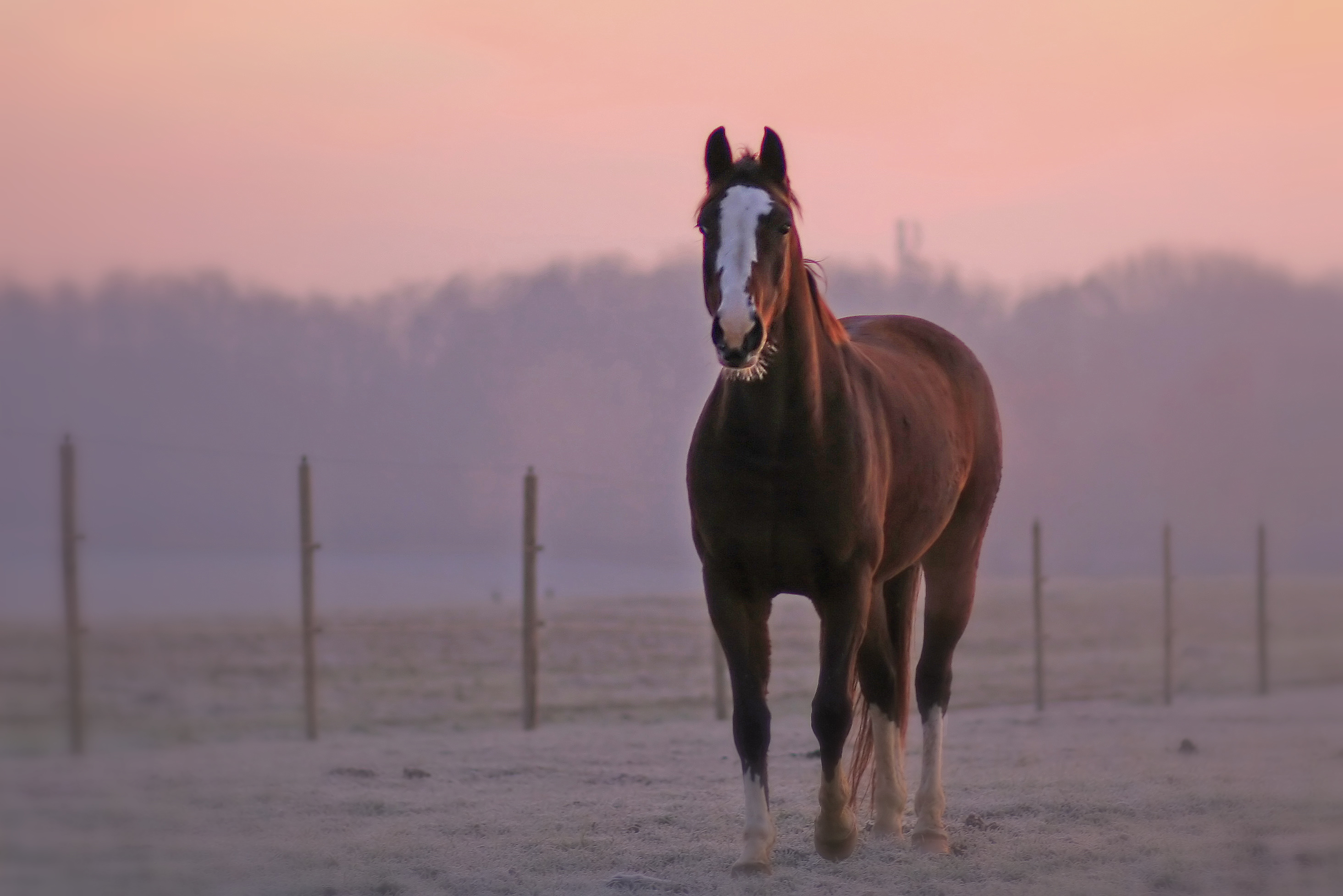 View On Black. A fresh morning of November, this beautifull horse was coming to me, happy to see some face probably. A light layer of frost was covering the grass, making it white. I liked the light and color of the sky and I processed a bit the photo to increase them and to soften a bit the surrounding of the horse also. In Explore: The list of my "Explore" photos: By best score or presented on black